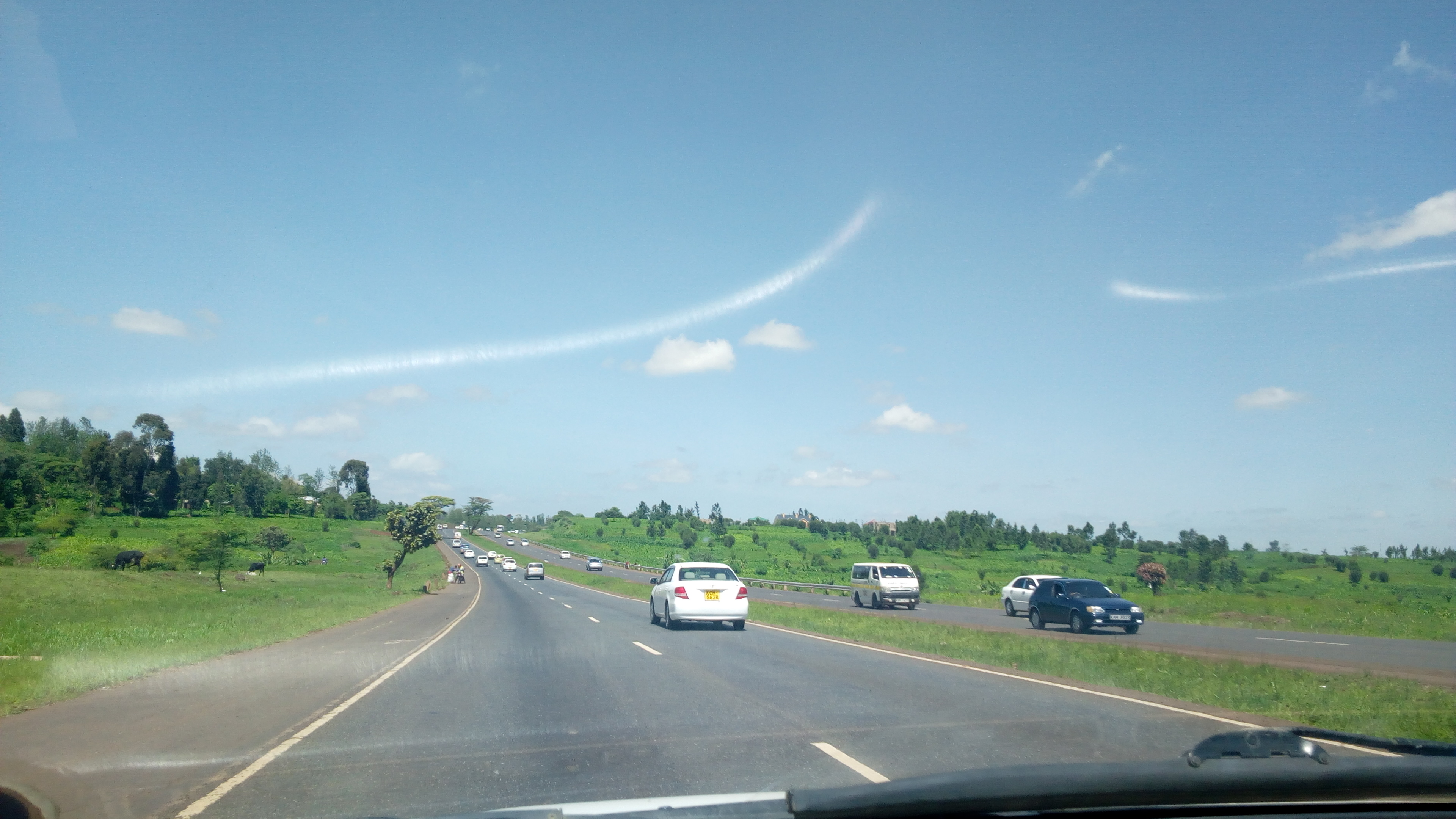 The Nairobi-Nyeri highway is one of the major road newtworks in Kenya opening up the Central area onwards to Moyale and Ethiopia.This is the Thika-Kenol section. This is an image with the theme "Africa on the Move or Transport" from: Kenya